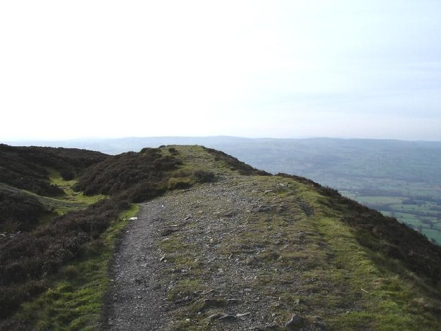 Penycloddiau hill fort. The hill fort on the summit of Penycloddiau